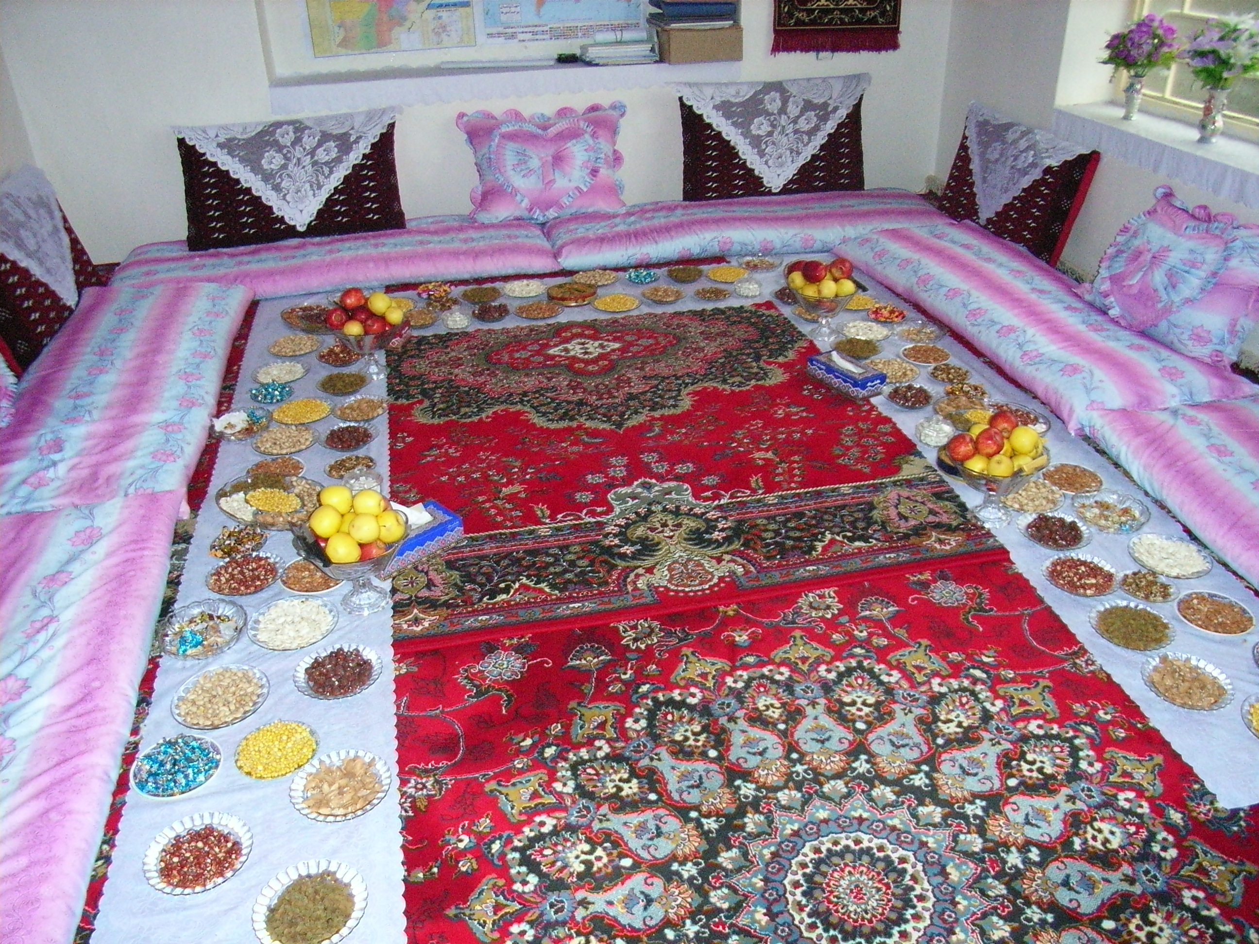 Inviting refreshments inside one of the newly constructed homes during the festival of Eid. (Photo: Nov. 2009, N. Khawaja, Navin Well-Field Area, Herat)